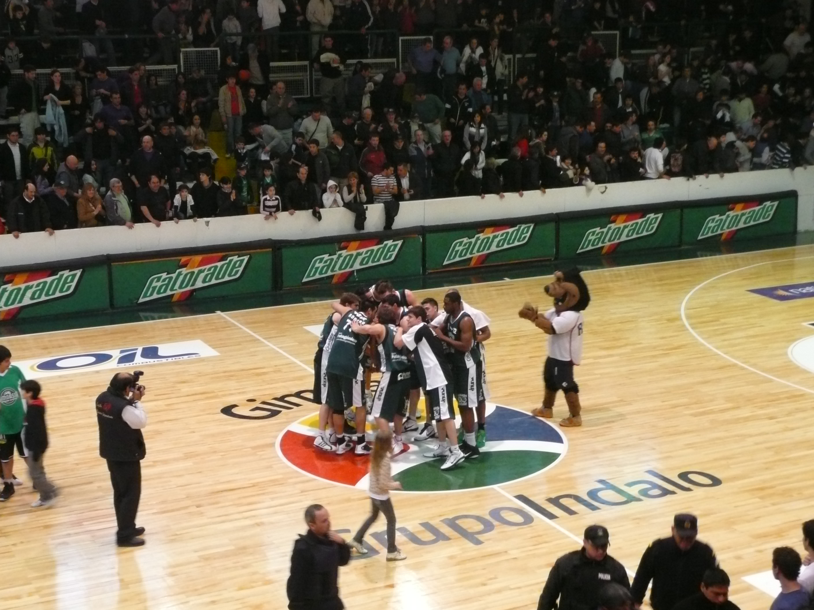 First home match Gimnasia Indalo LNB 2011-2012